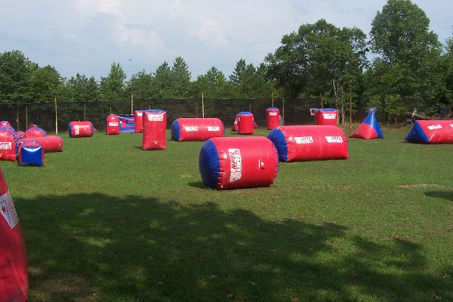 Sup'Air inflatable bunkers on a playing field for speedball, a variant of paintball